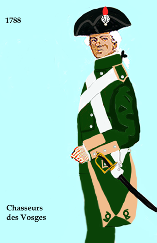 Uniforms of the french rifles of foot in 1788